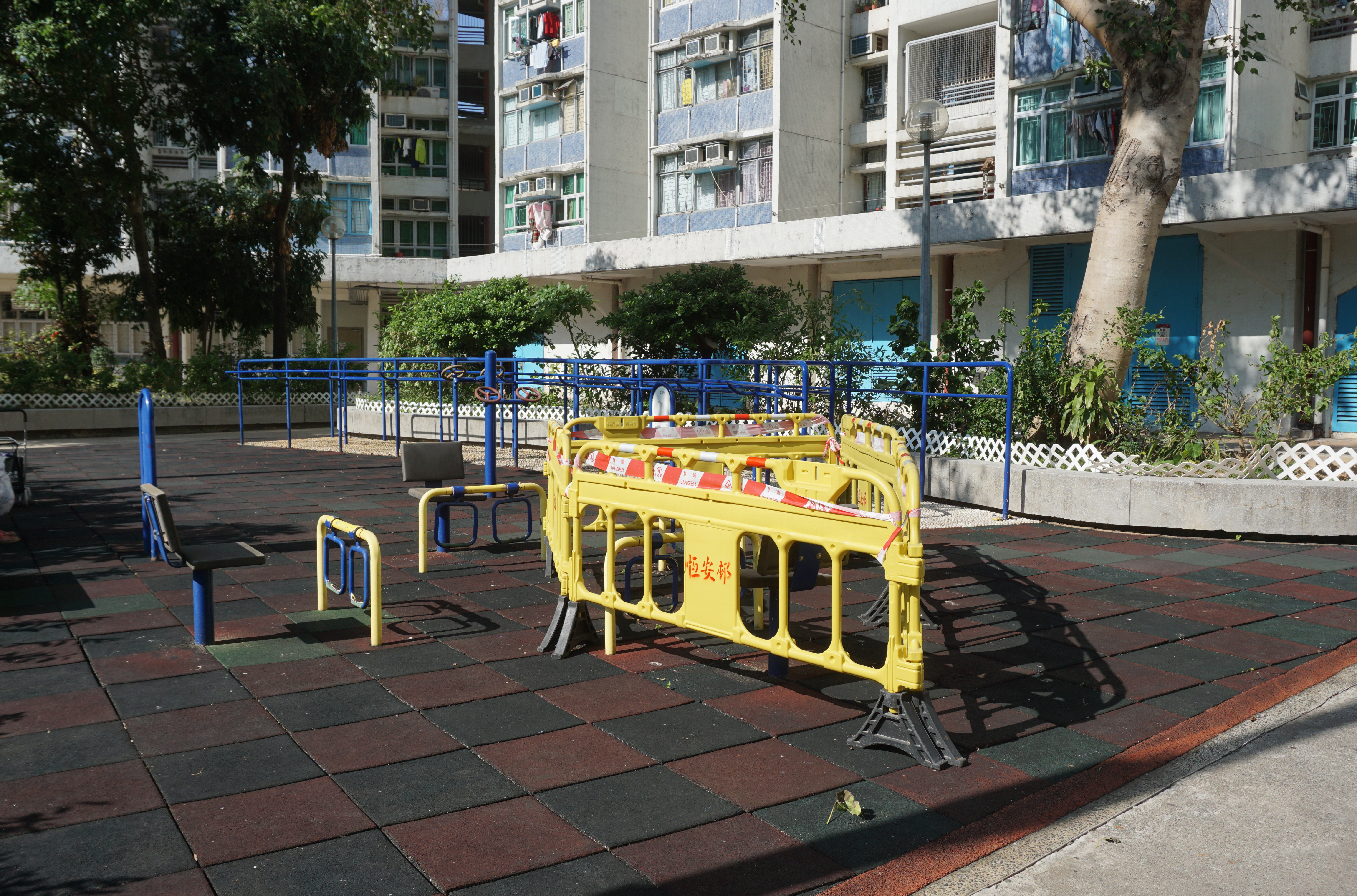 Heng On Estate in Heng On, Hong Kong.